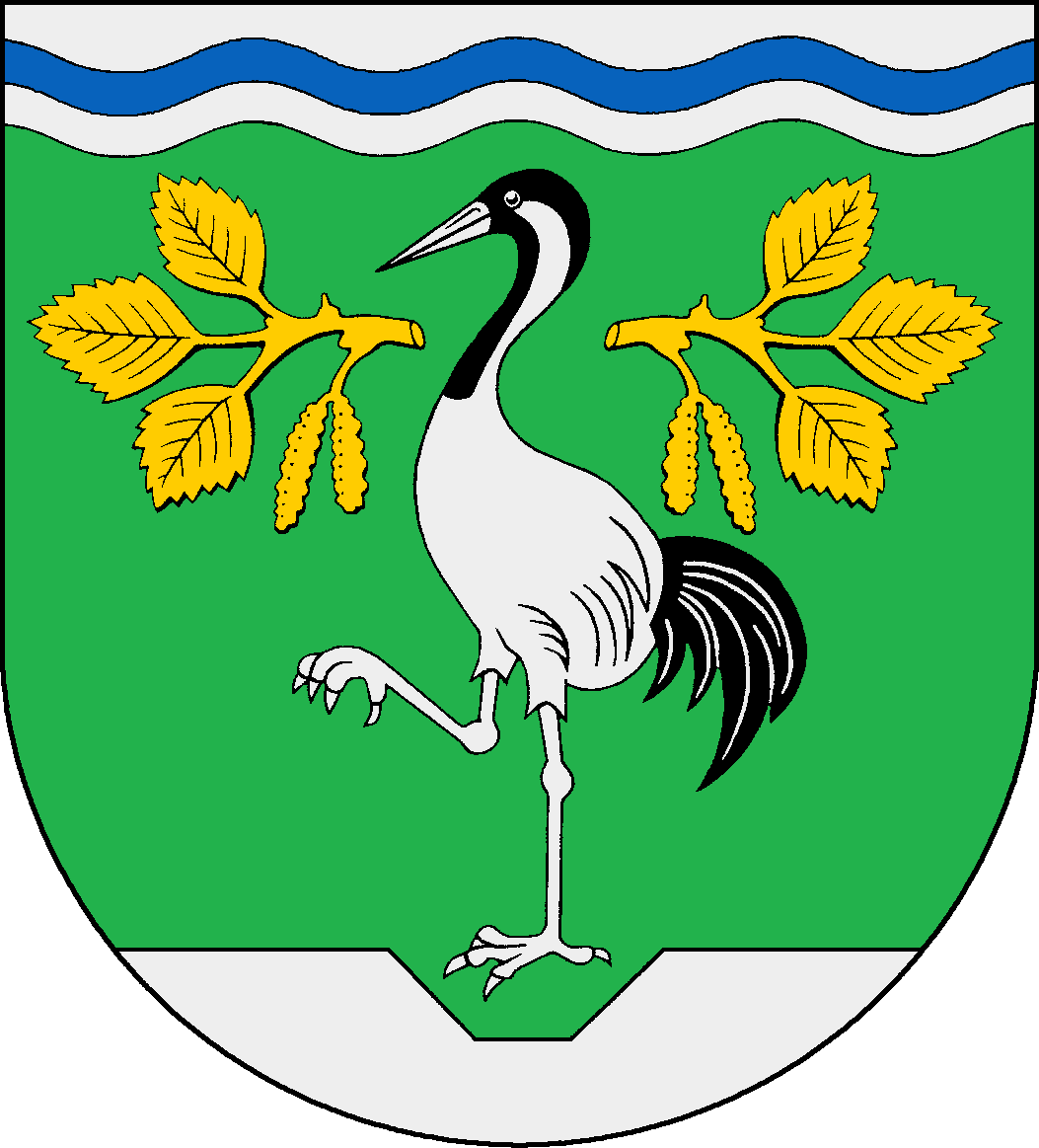 Coat of arms of the municipality Kronsmoor in Schleswig-Holstein, Germany.